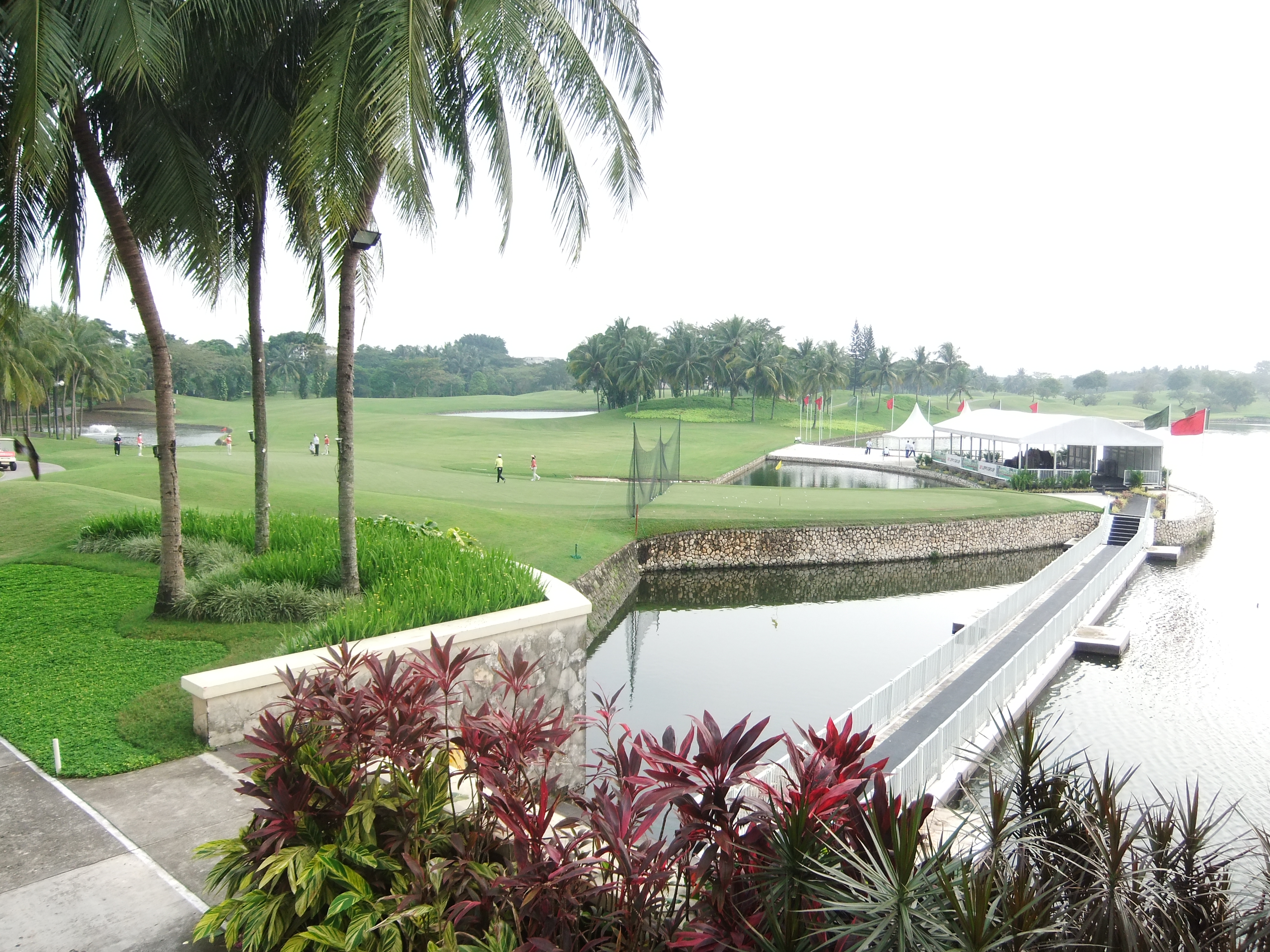 Imperial golf club, Lippo Karawaci, Tangerang, Banten Indonesia